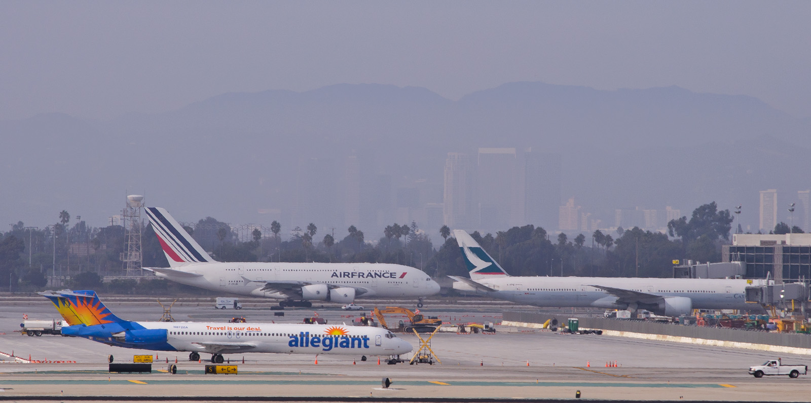 Air France 65 has departed the remote stands and is taxiing to Runway 24L to depart back to Paris. In front, a pair of Allegiant MD-80s are standing. And to the right, a Cathay Pacific 777 is docked at one of the new gates of Bradley West. It appears that the first stages of Bradley West have been opened for service, though further work remains to be done. F-HPJB, Airbus A380-800 (Air France) N872GA, McDonnell-Douglas MD-83 (Allegiant Air) B-KPE, Boeing 777-300ER (Cathay Pacific)